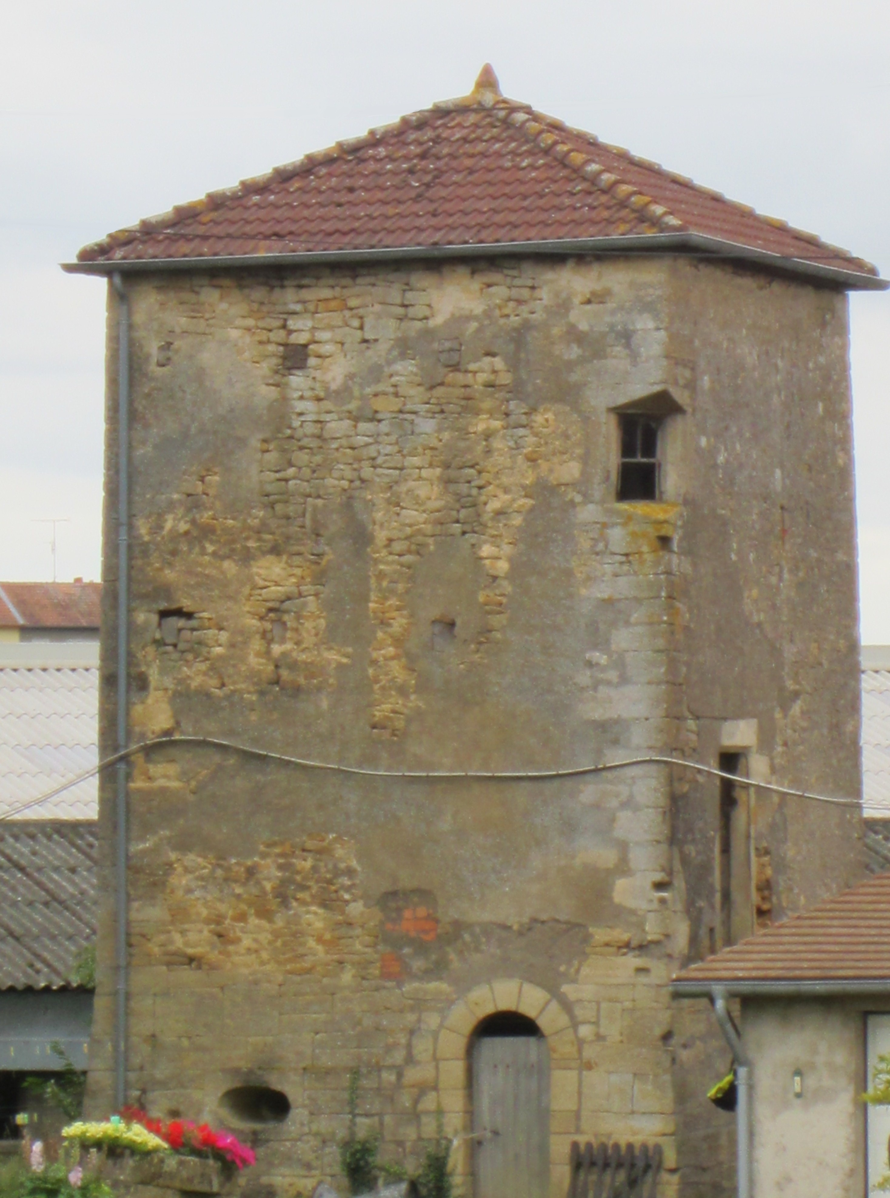 Description ferme chateau Brabant Tucquegnieux Date20 September 2011Sourcemon appareil photoAuthorAimelaimePermission (Reusing this file) ferme chateau Brabant Tucquegnieux